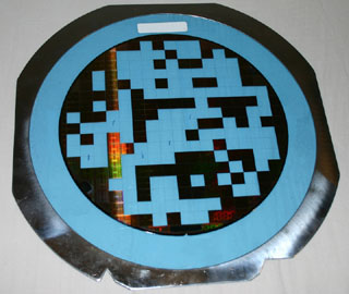 Wafer after being mounted on a plastic. I took the picture myself and hereby release it to the public for unlimited use.